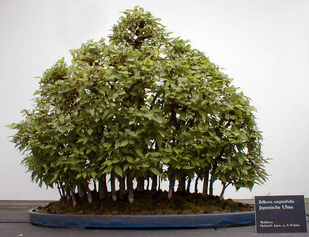 Bonsai in Yose-ue formation, picture taken on May 20th, 2000 in Heidelberg (Germany)